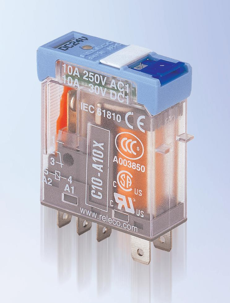 Academic